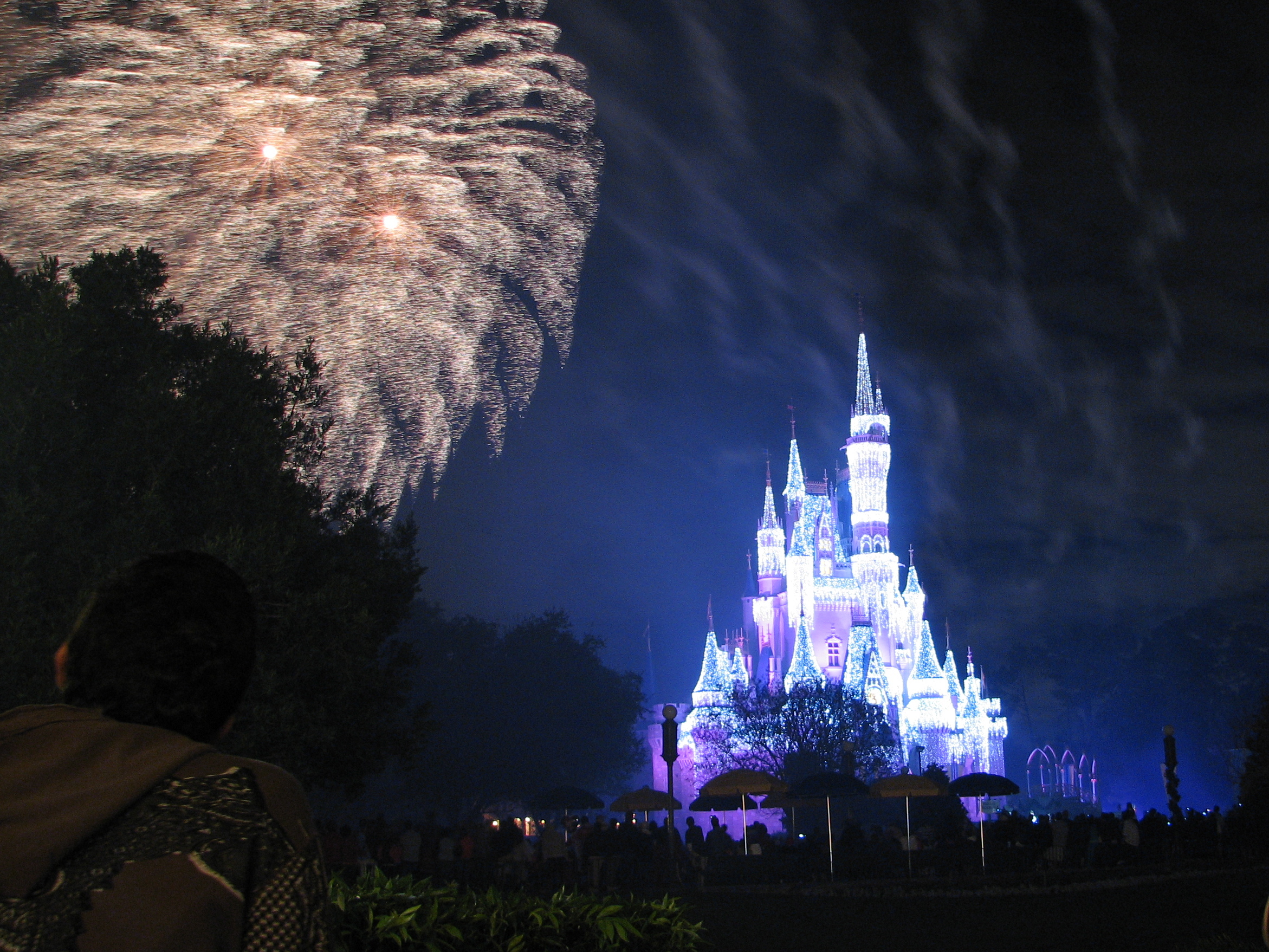 Cinderella Castle and the Wishes fireworks show at the Magic Kingdom in Florida.